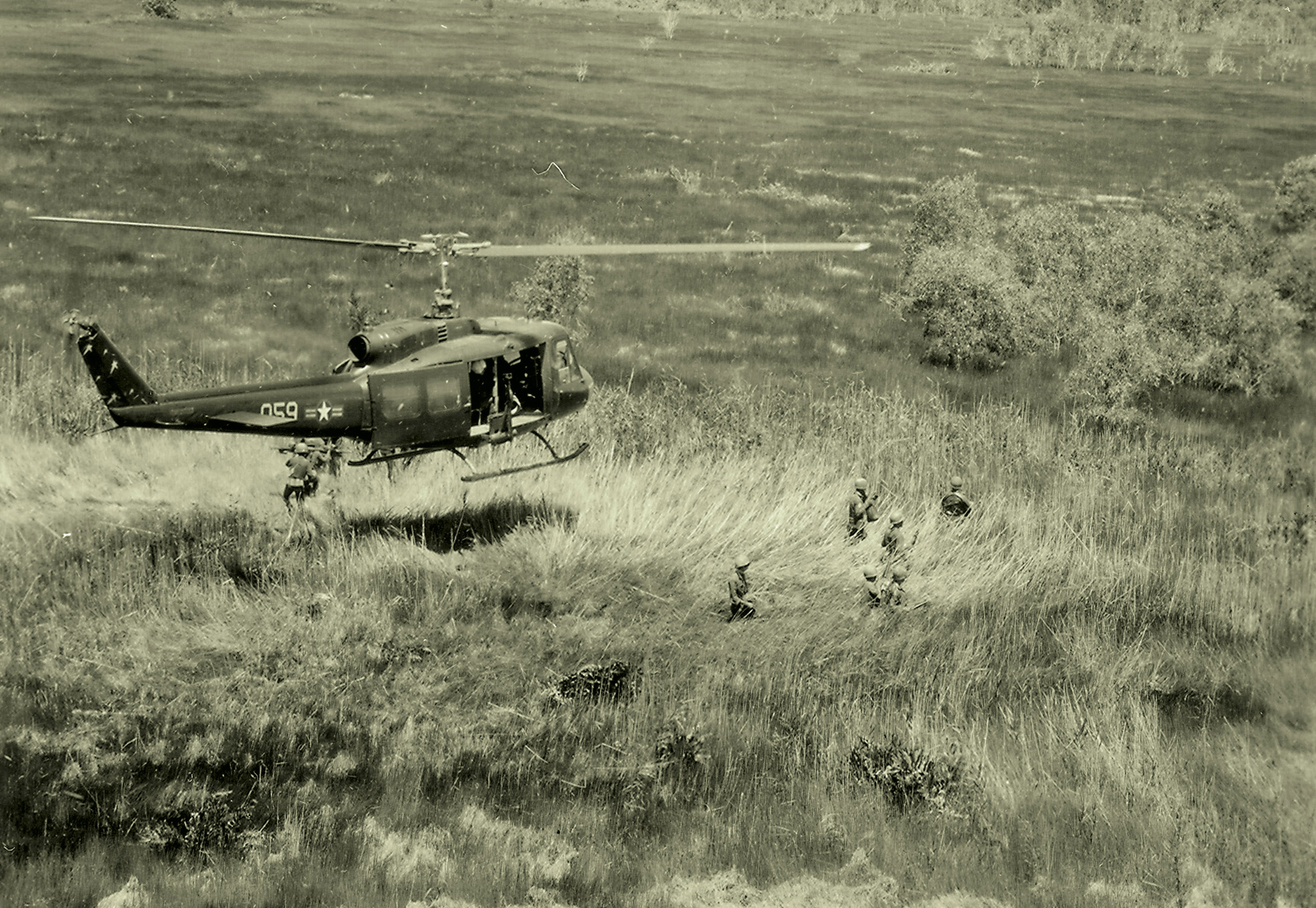 On 18 July 1970, a South Vietnamese Air Force (VNAF) UH-1D Huey helicopter hovers above Vietnamese Air Force personnel of the 211th Helicopter Squadron on a combat assault in the Mekong Delta area of Vietnam.